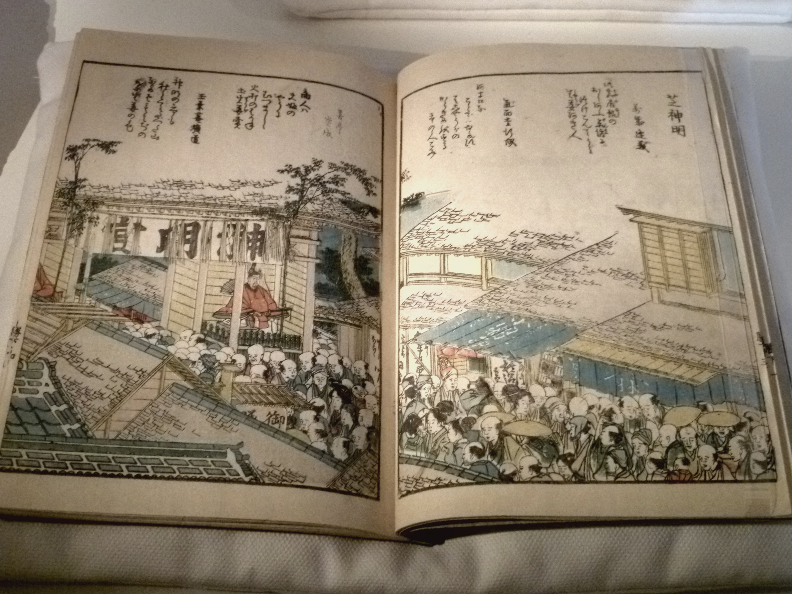 "Overview of an oriental capital" (Toto shokei ichiran), xylograph (1800) by Katsushika Hokusai; collection of the Musée L, Ottignies-Louvain-la-Neuve; Belgium